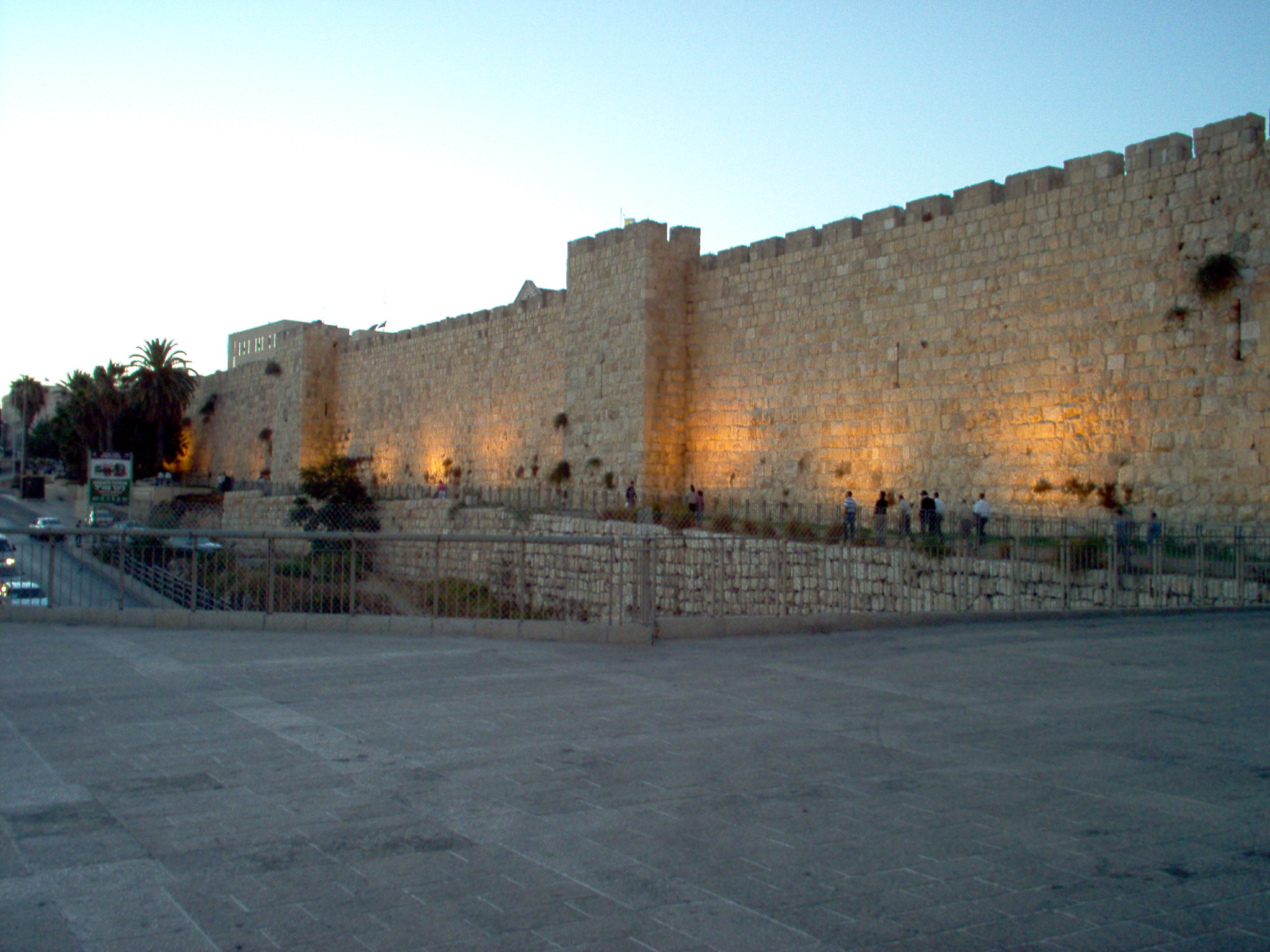 Jerusalem: Wall leading to Jaffo Gate